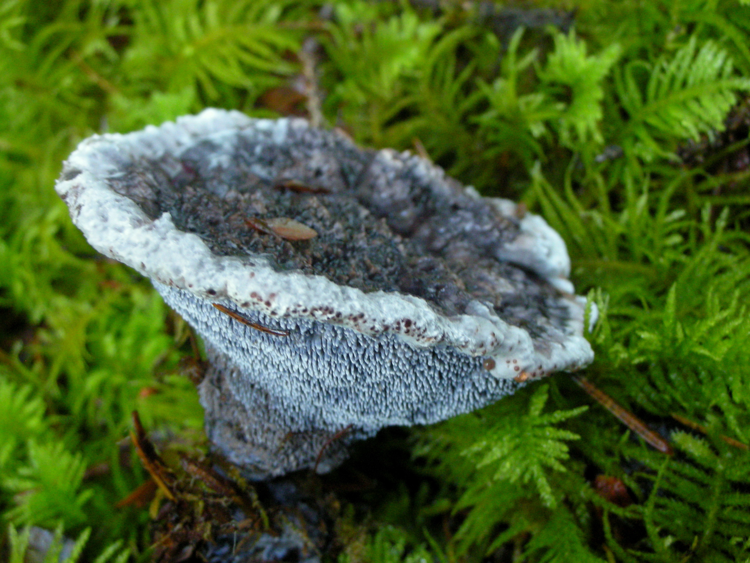 A fruit body of the fungus Hydnellum cyanopodium K.A. Harrison. Photographed in Samuel H. Boardman State Park, Curry Co., Oregon, USA.